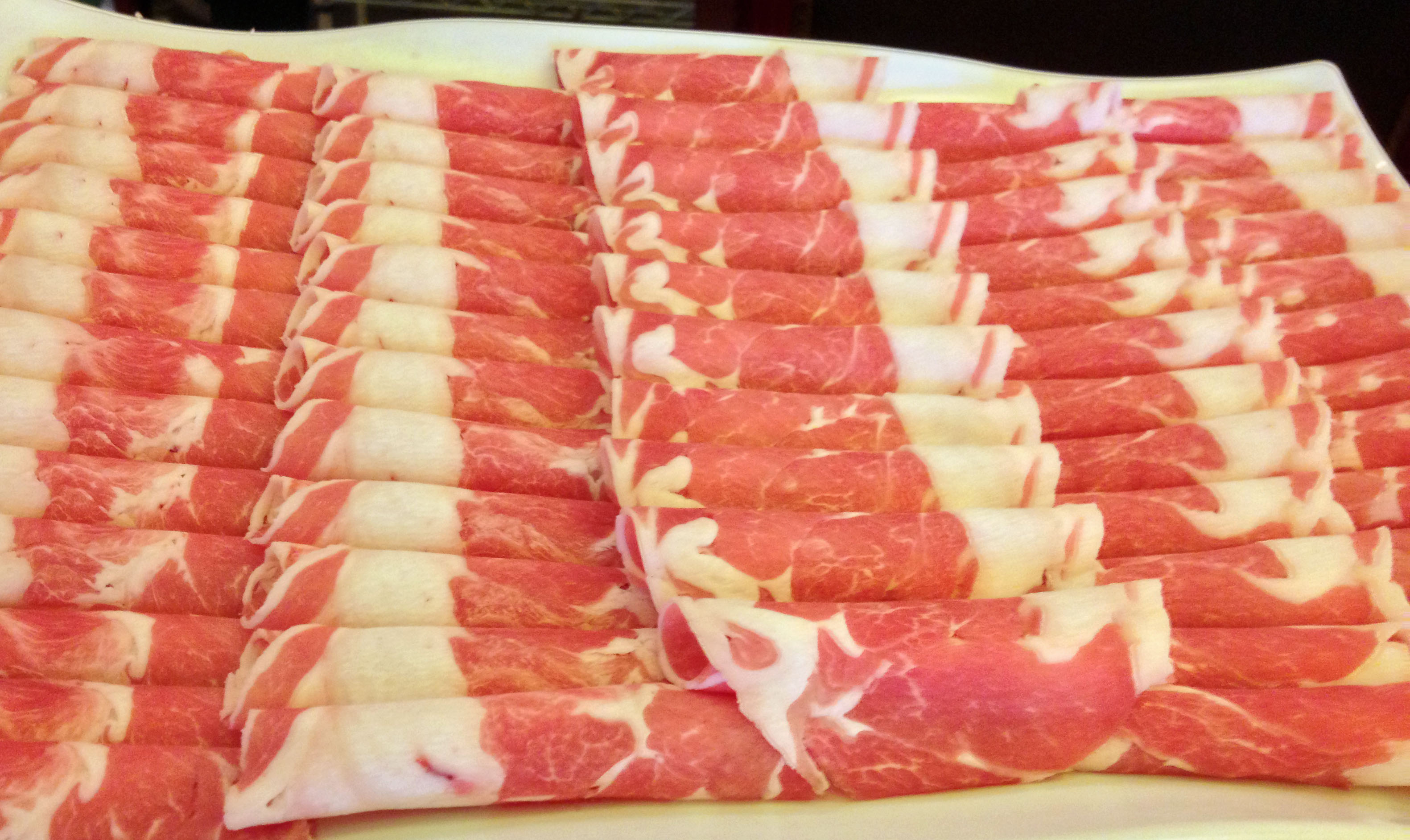 Pictures of Food Lamb meat